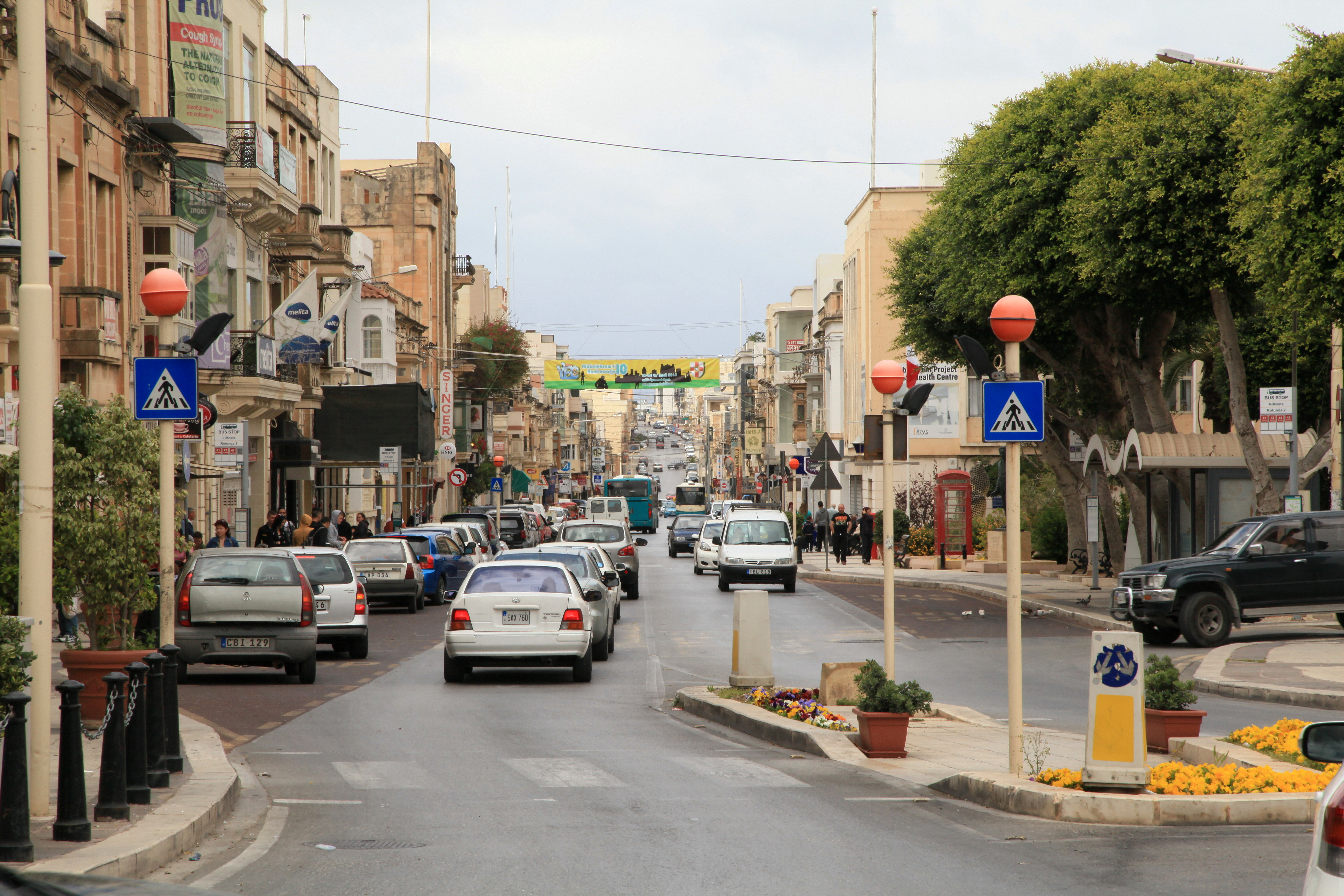 Triq il-Kostituzzjoni in Mosta, Malta